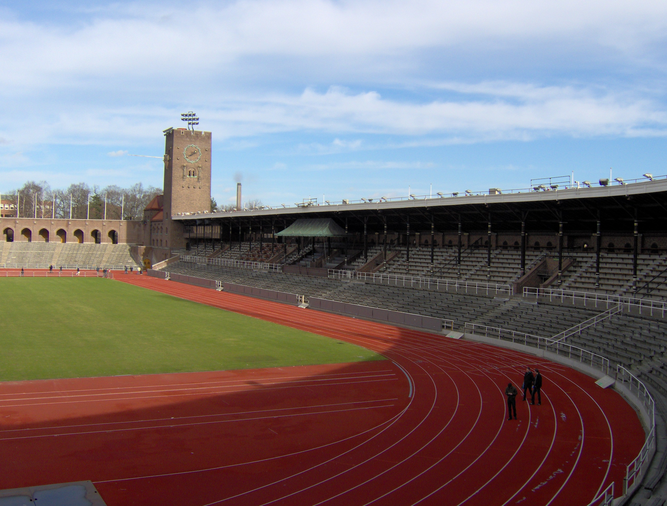 Stockholms Olympiastadion, Section A to G.